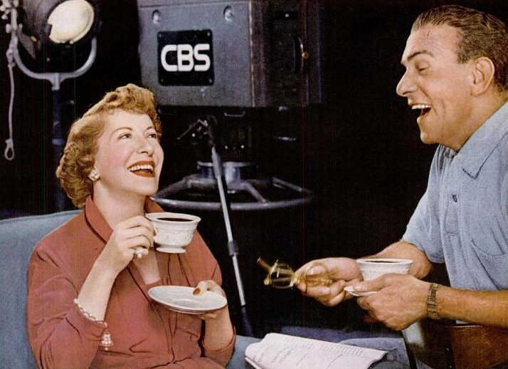 Life magazine ad for the Pan-American Coffee Bureau featuring George Burns and Gracie Allen, 1953. Photo of Burns and Allen from ad.